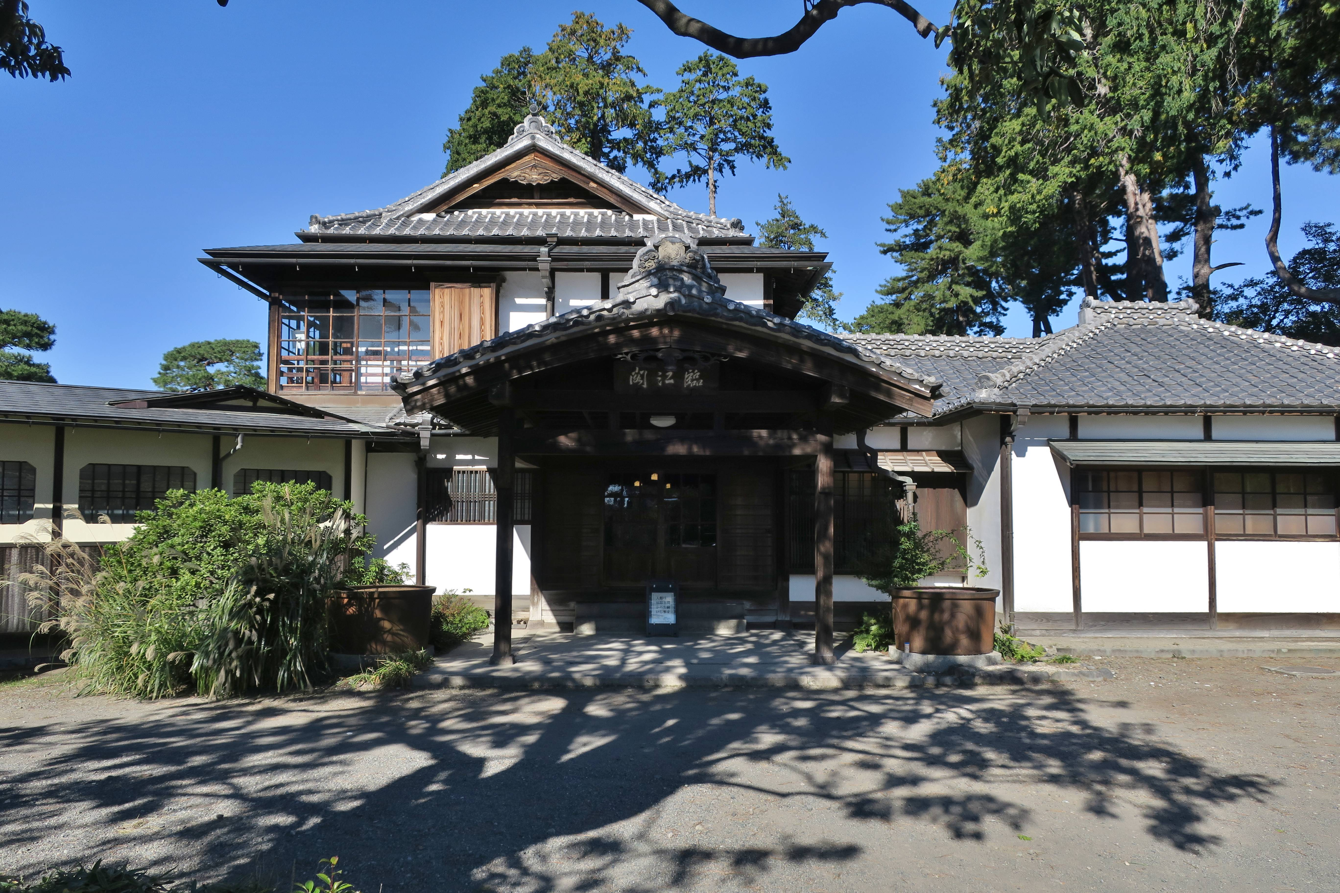 Rinkōkaku (Maebashi, Gunma).